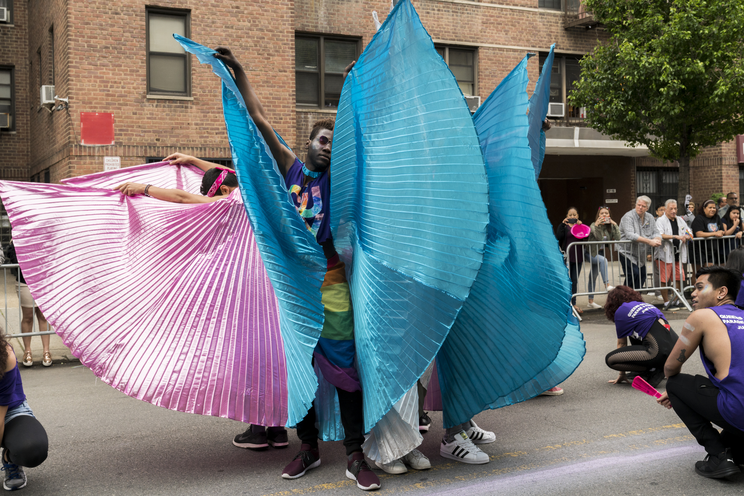 Photos taken for the La Guardia and Wagner Archives at the Queens Pride Parade in Queens on Sunday, June 3, 2018.